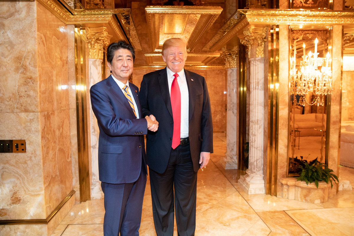 President Donald J. Trump and Prime Minister Shinzo Abe of Japan shake hands during their bilateral dinner meeting Sunday evening, Sept. 23, 2018, in the President’s private residence at Trump Tower in New York City. (Official White House Photo by Shealah Craighead)